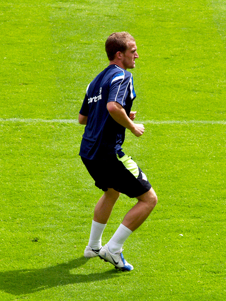 Oldham Athletic FC forward Lewis Alessandra during the warm up at Gigg Lane, home of Bury Football Club prior to the Bury vs. Oldham Athletic friendly game. Saturday 18th July 2009